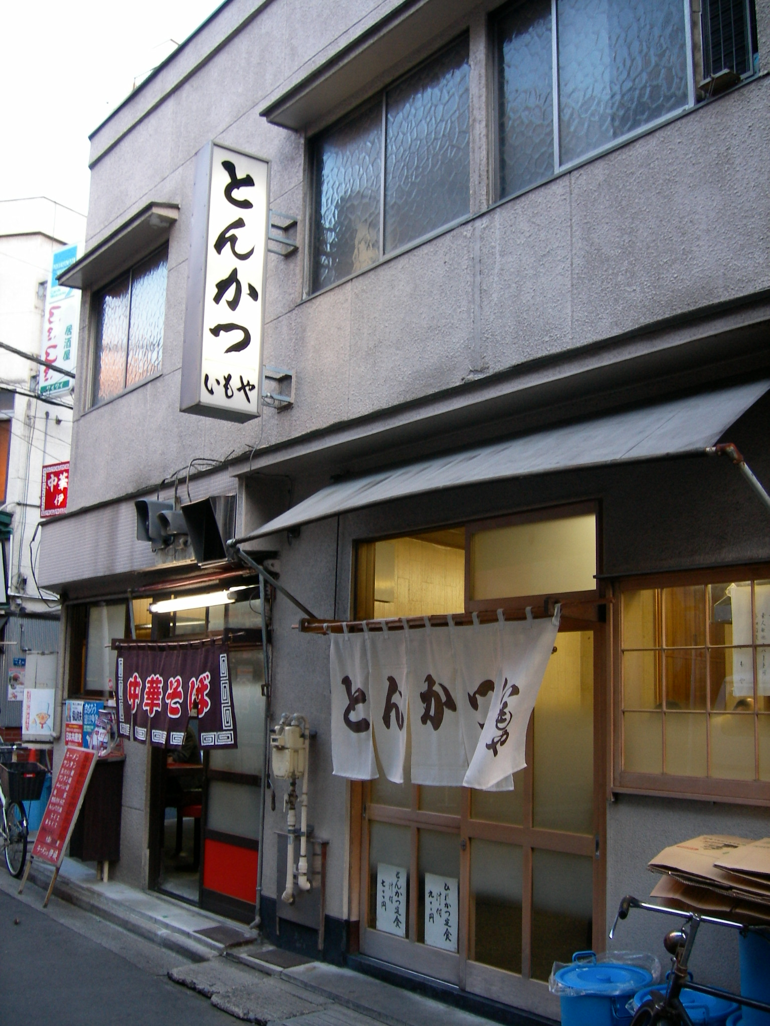 pork cutlet